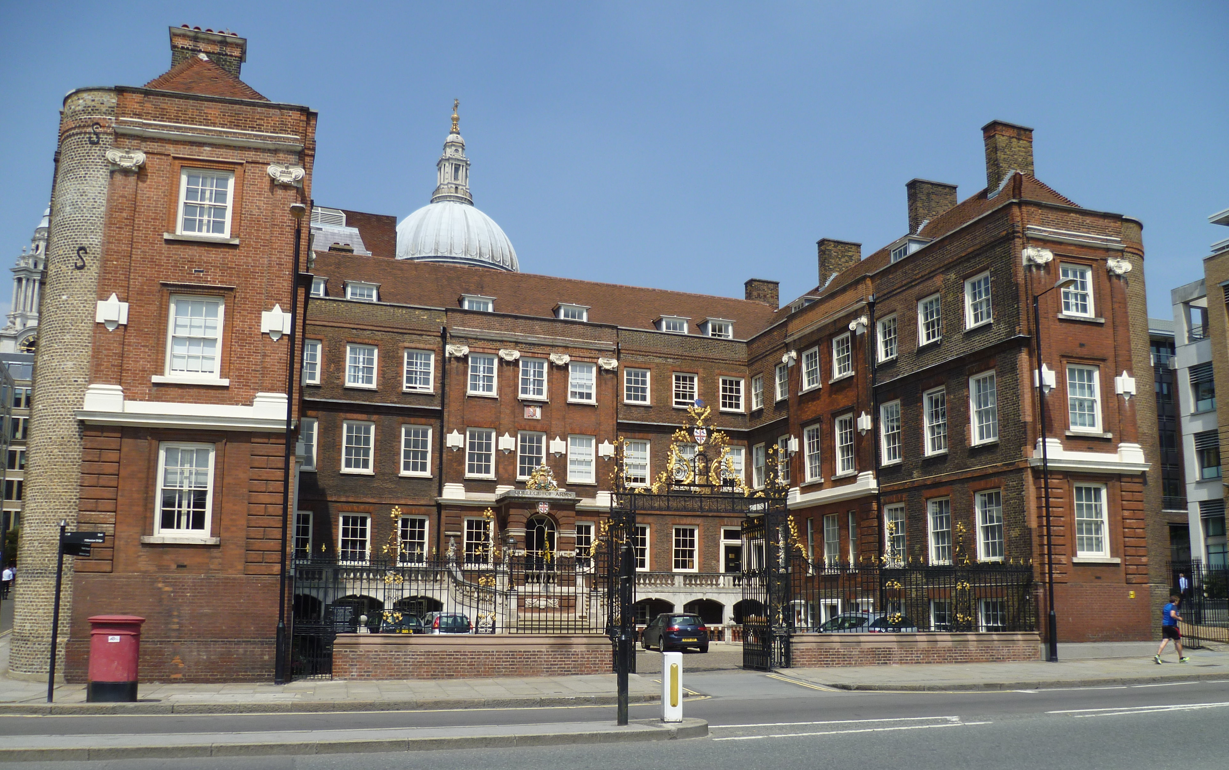 College of Arms, London 19 June 2013.